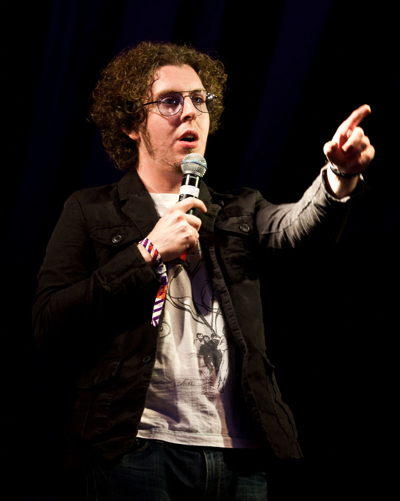 Carl Donnelly, English stand-up comedian, performing at the Latitude Festival in 2009.